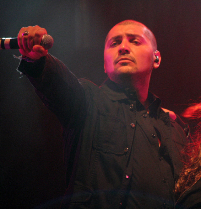 Reyli, a Mexican singer and composer performing in concert.